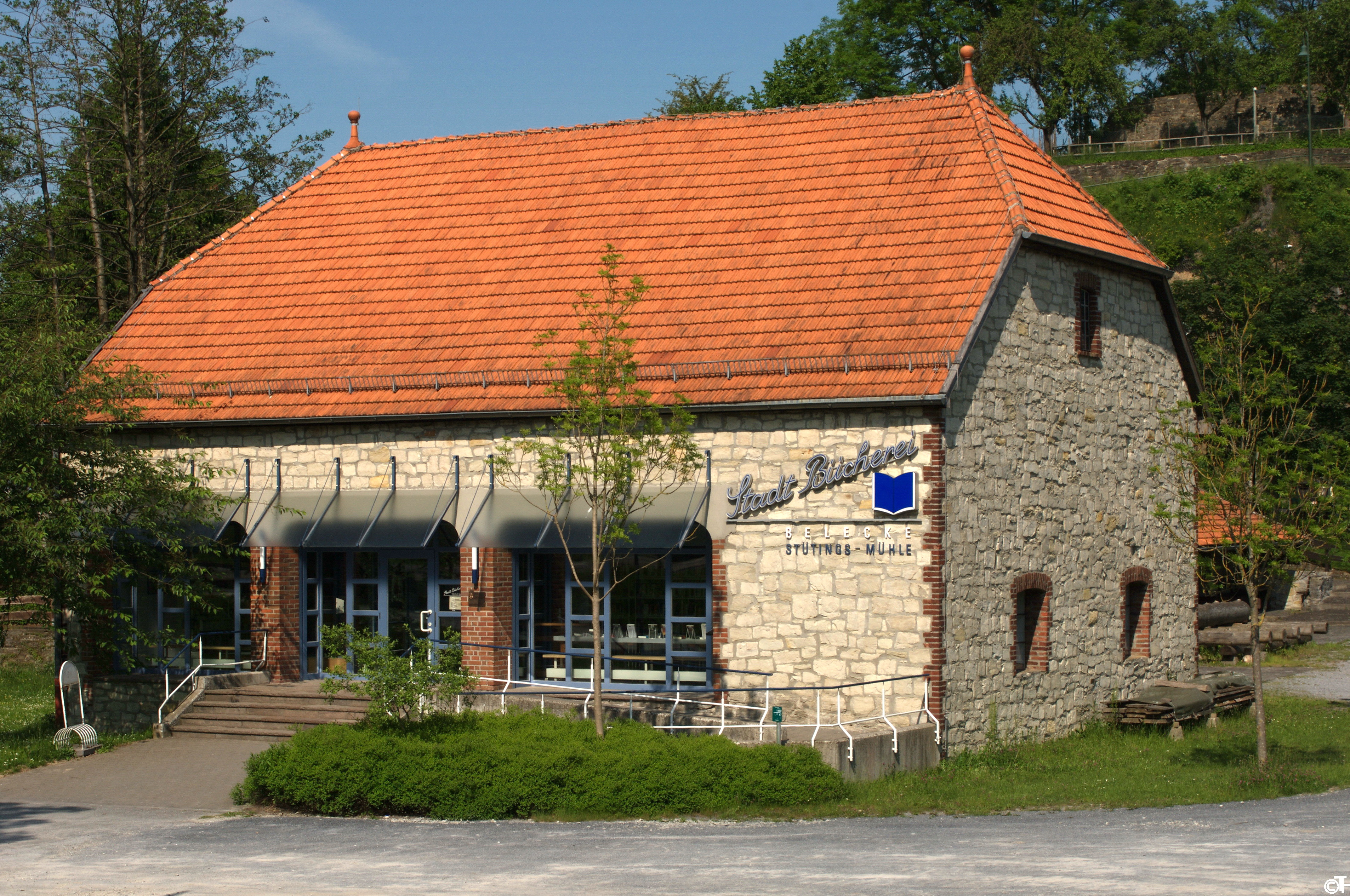 Old sawmill in Belecke, today used as public library; but sawmill still in use for demonstration purpose